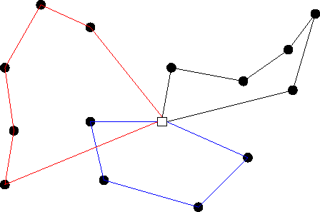 A figure illustrating the vehicle routing problem.